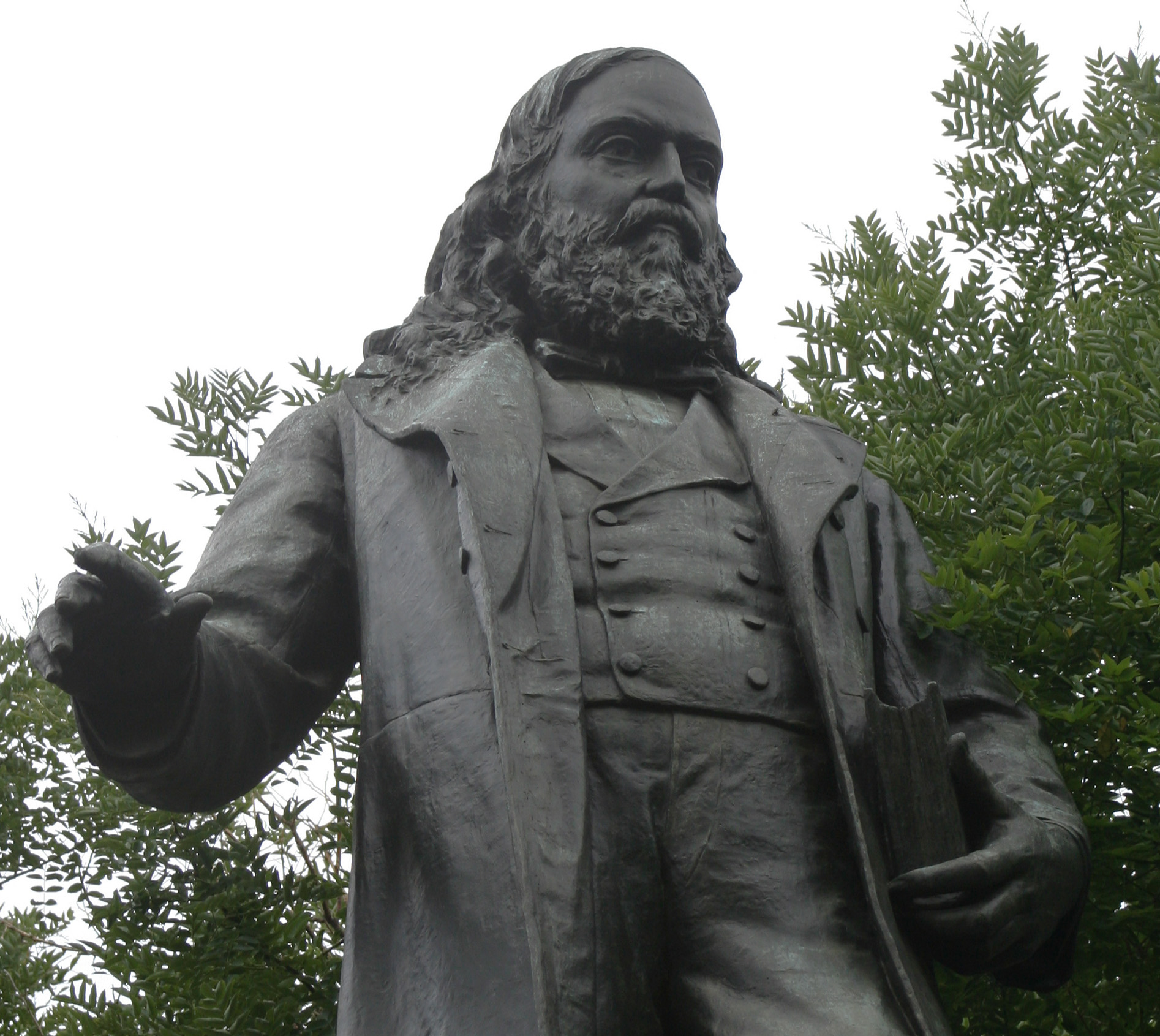 Albert Pike (1809-1891) statue at Judiciary Square, Washington